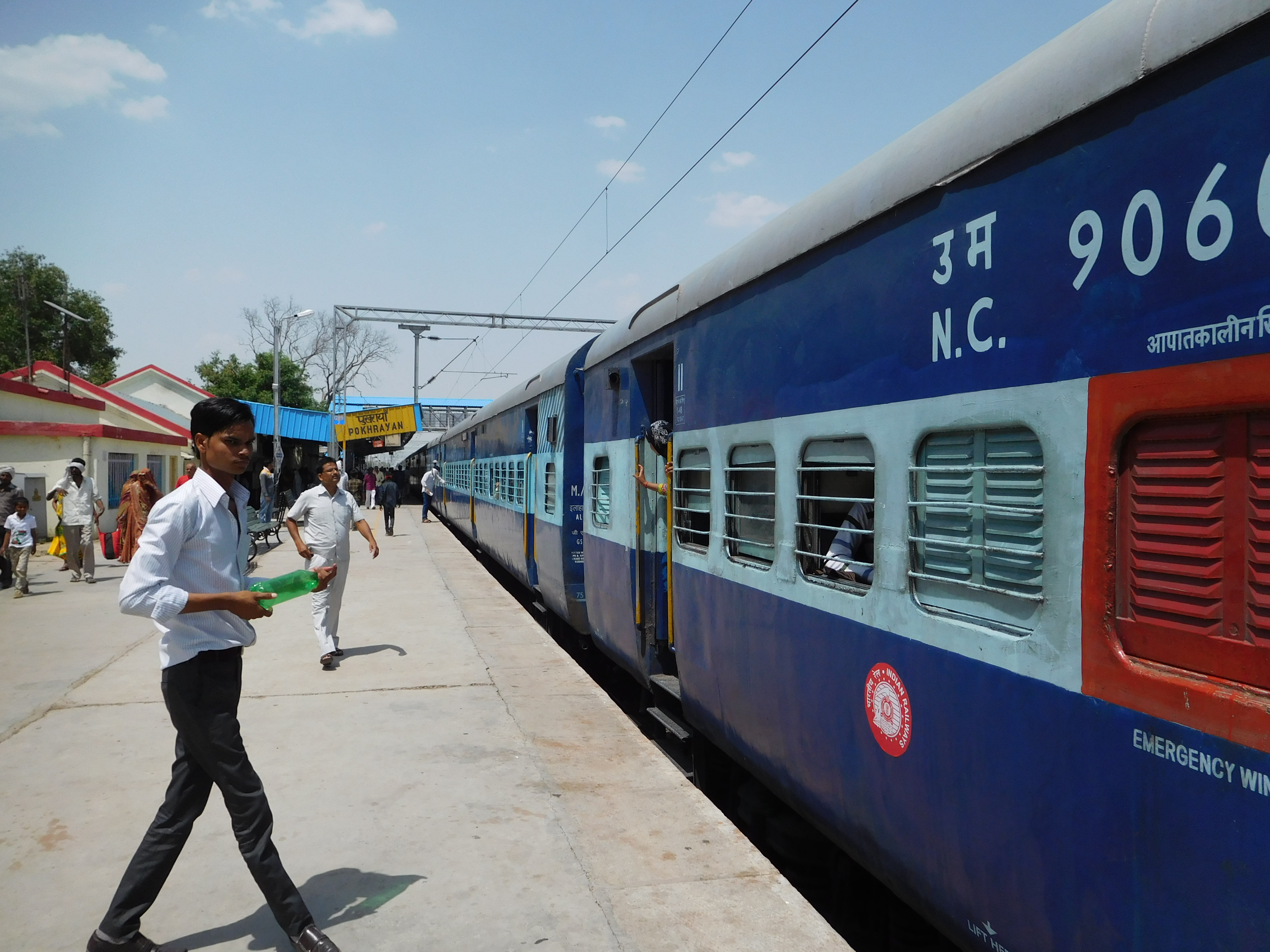 Pokhrayan Railway Station(Plateform )(NCR)